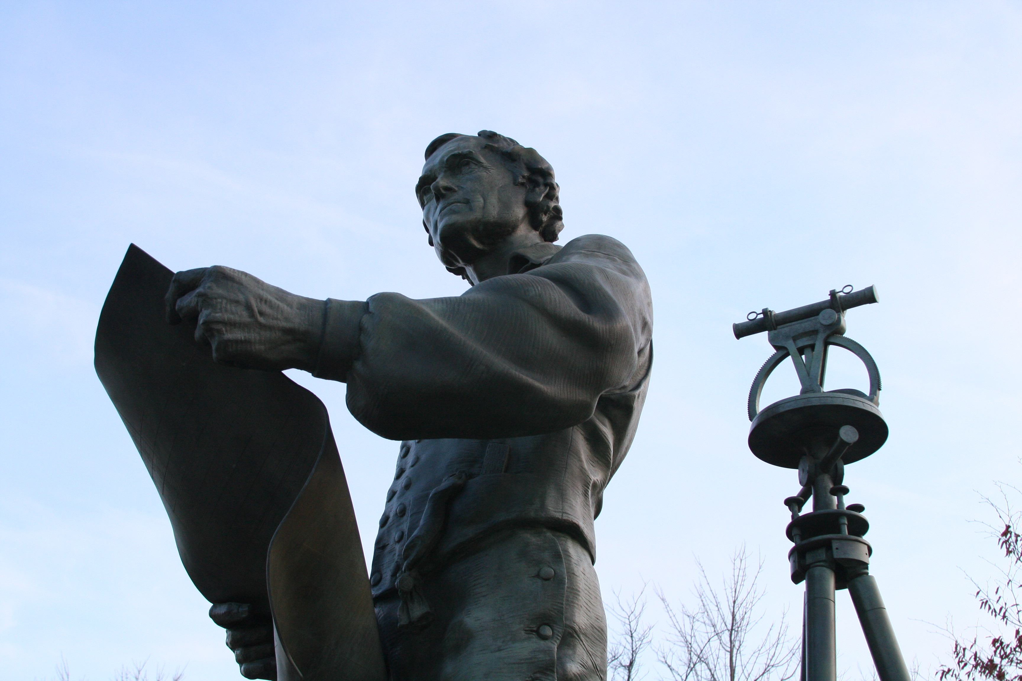 Statue of Thomas Jefferson, surveying the site of the University of Virginia. Erected on the North Grounds in 2007. Sculptors: Eugene Daub, Rob Firmin und Johah Hendrickson.